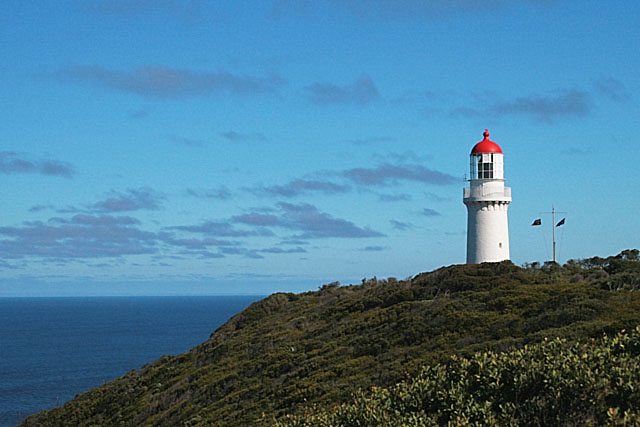 Cape Schanck Lighthouse, mfunnell, 17MAR2006